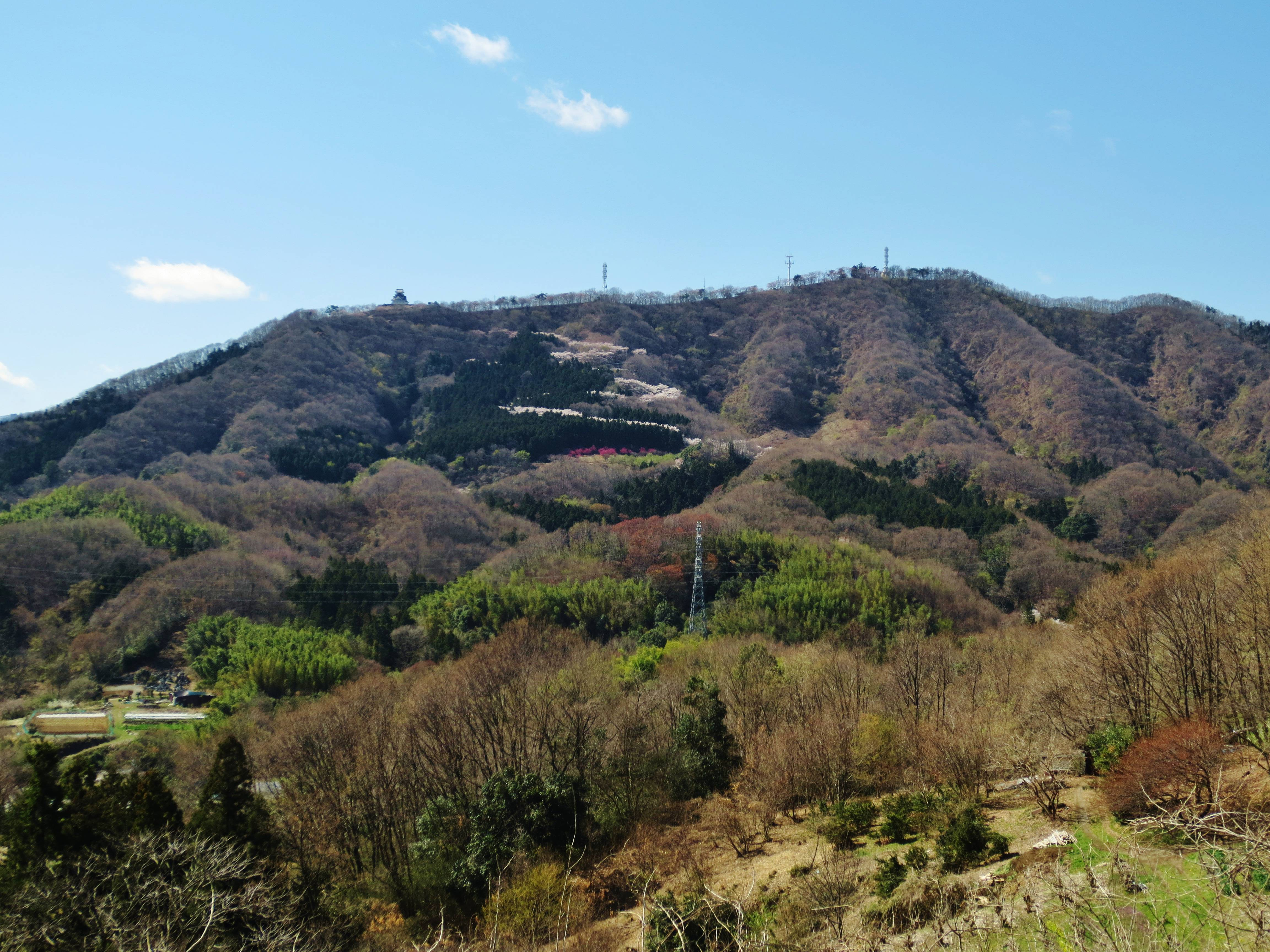 Mount Ushibuse (Takasaki, Gunma).